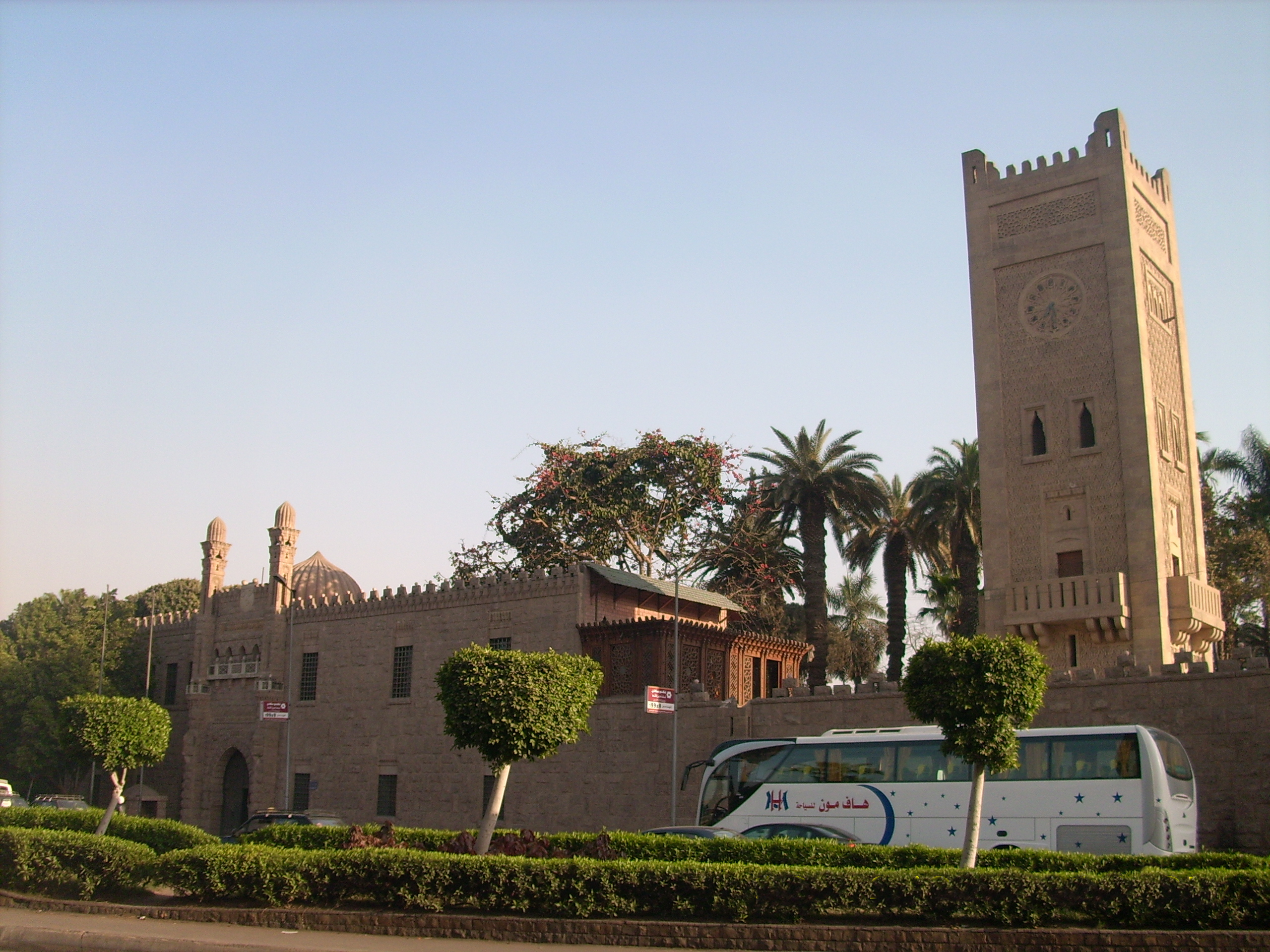 Prince Mohammed Ali Palace - Manyal - Cairo3